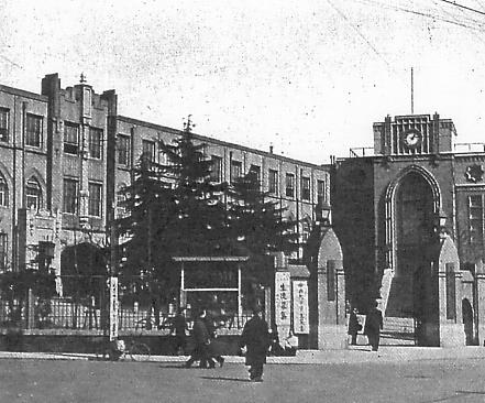 Chuo University circa 1930